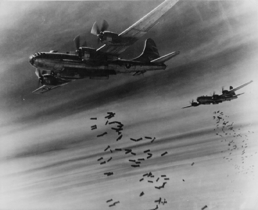 B-29 bombers bomb Tokyo